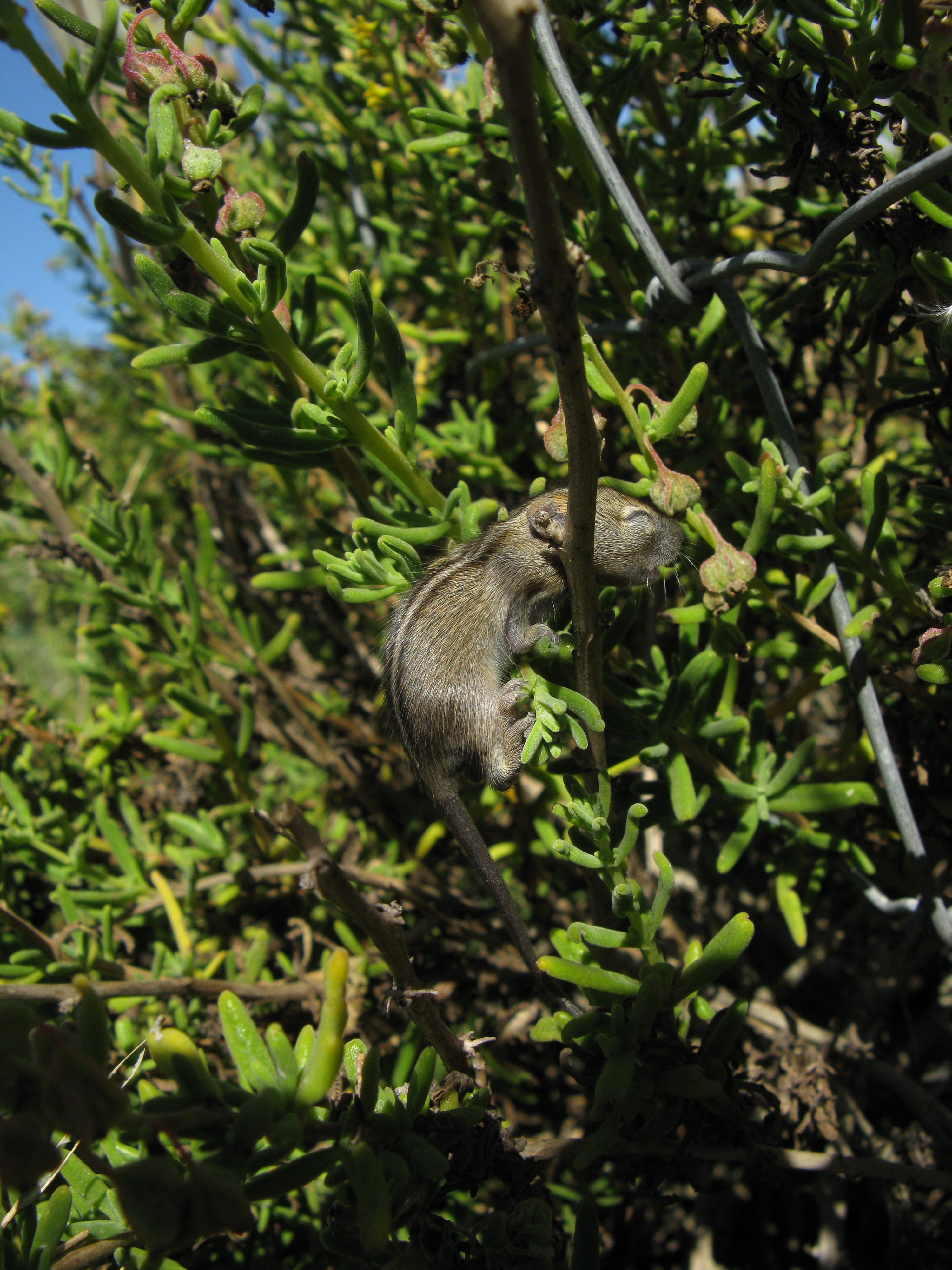 Rhabdomys pumilio Striped mouse juvenile in the wild state, its eyes not yet opened, but foraging in full daylight in a succulent plant in the Mesembryanthemaceae, possibly a Drosanthemum, near the West Coast of South Africa. It seemed to be eating both leaves and unripe fruit.